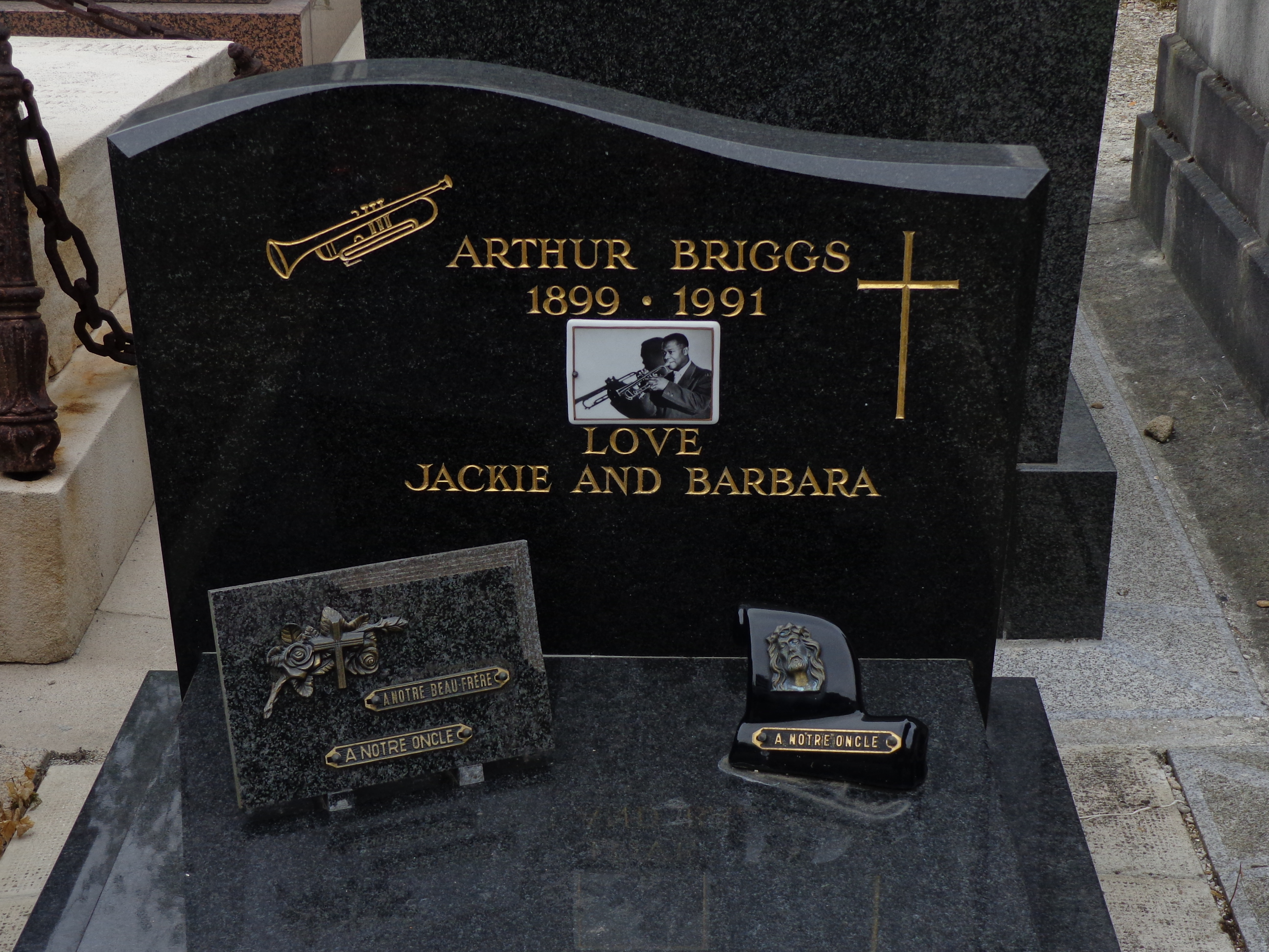 Grave of Arthur Briggs, jazz trumpeter, 1899-1991, Montmartre cemetery, Paris.